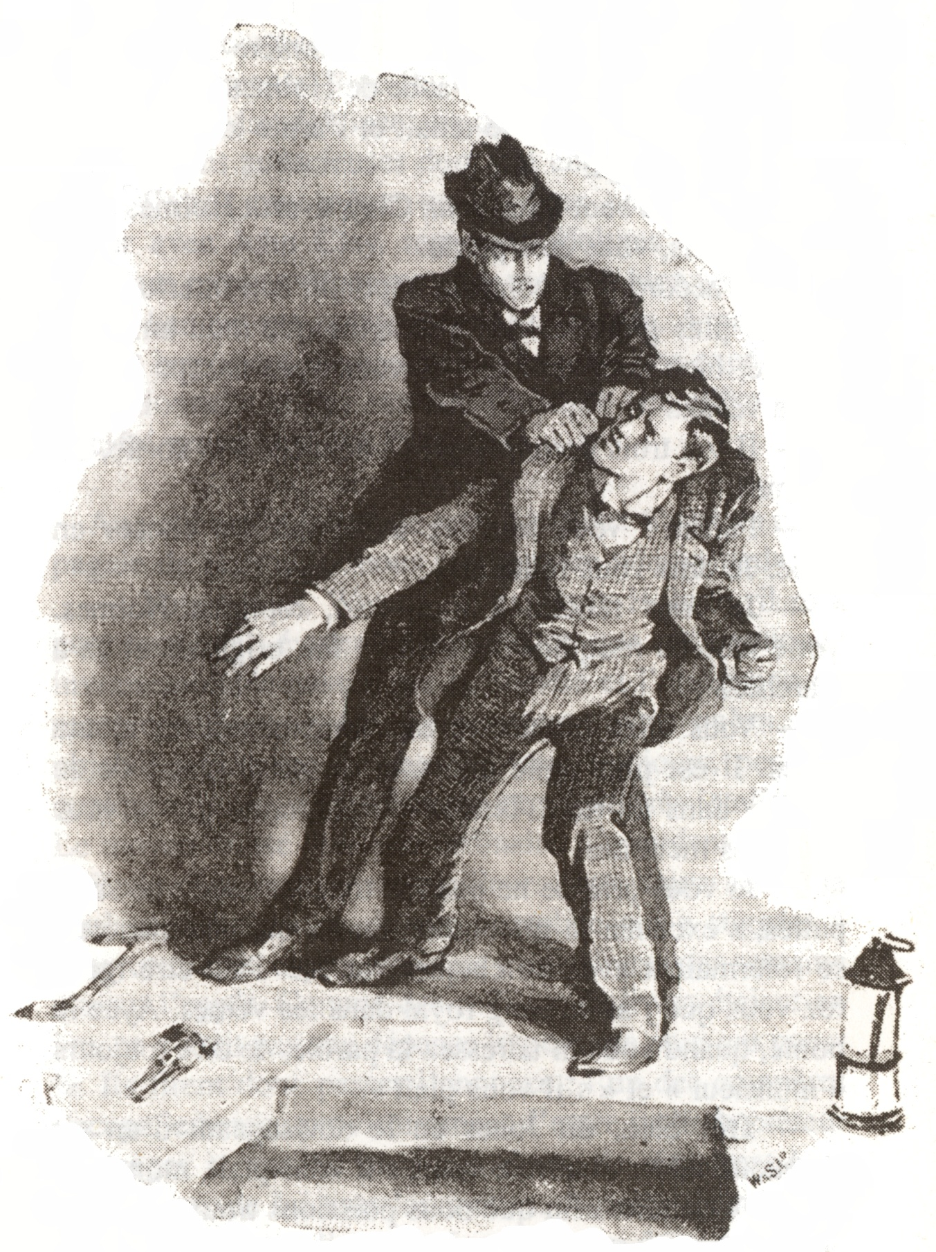 Illustration of the Sherlock Holmes short story The Red-Headed League, which appeared in The Strand Magazine in August, 1891. Original caption was "IT'S NO USE, JOHN CLAY."